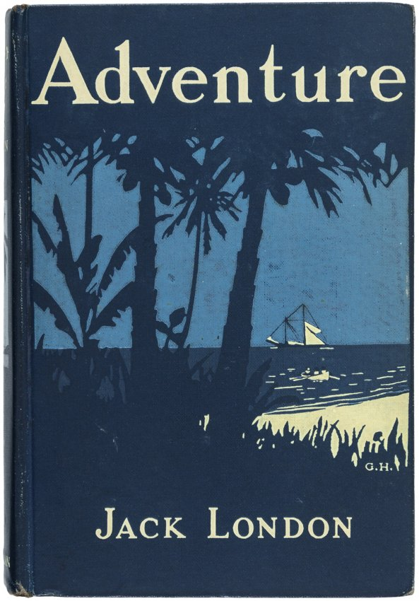 Adventure cover